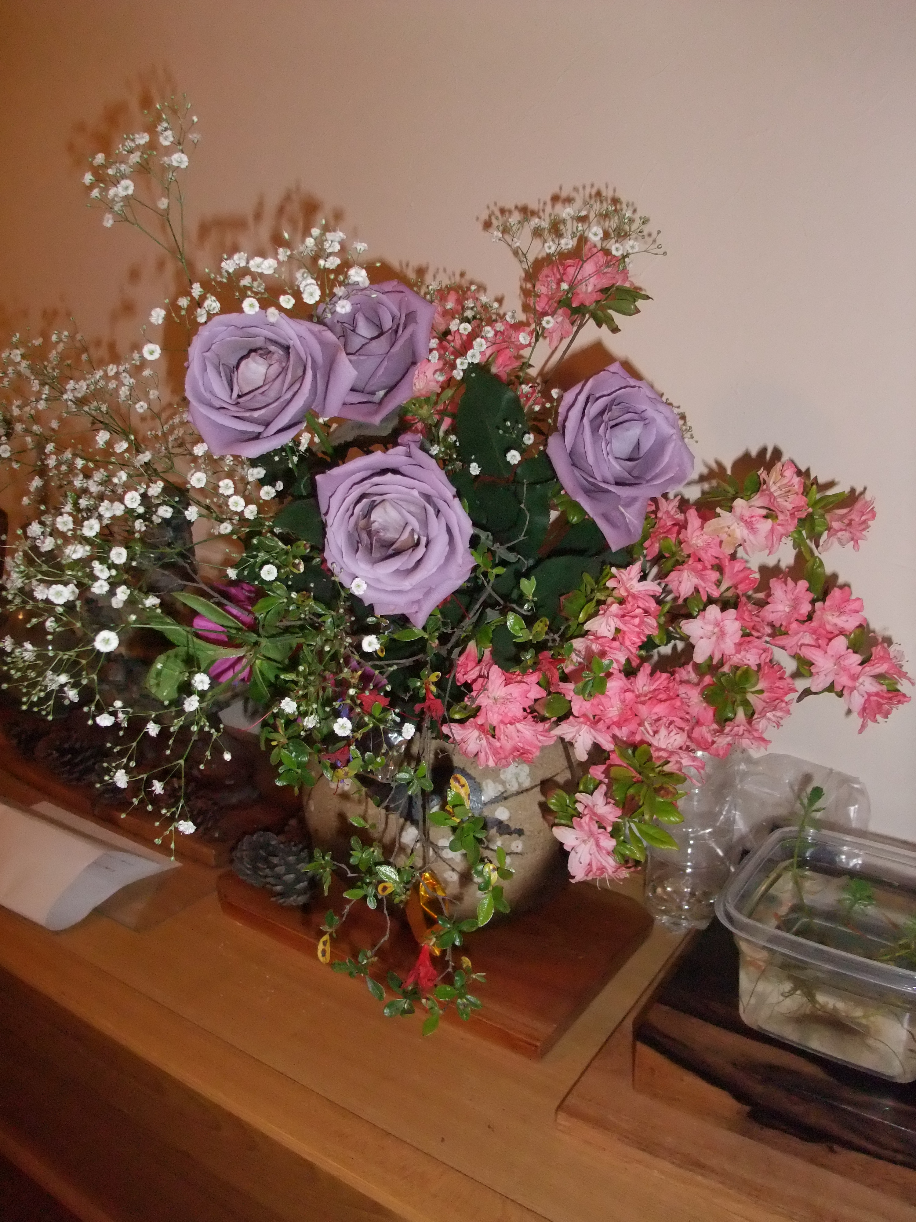 SUNTORY blue rose APPLAUSE